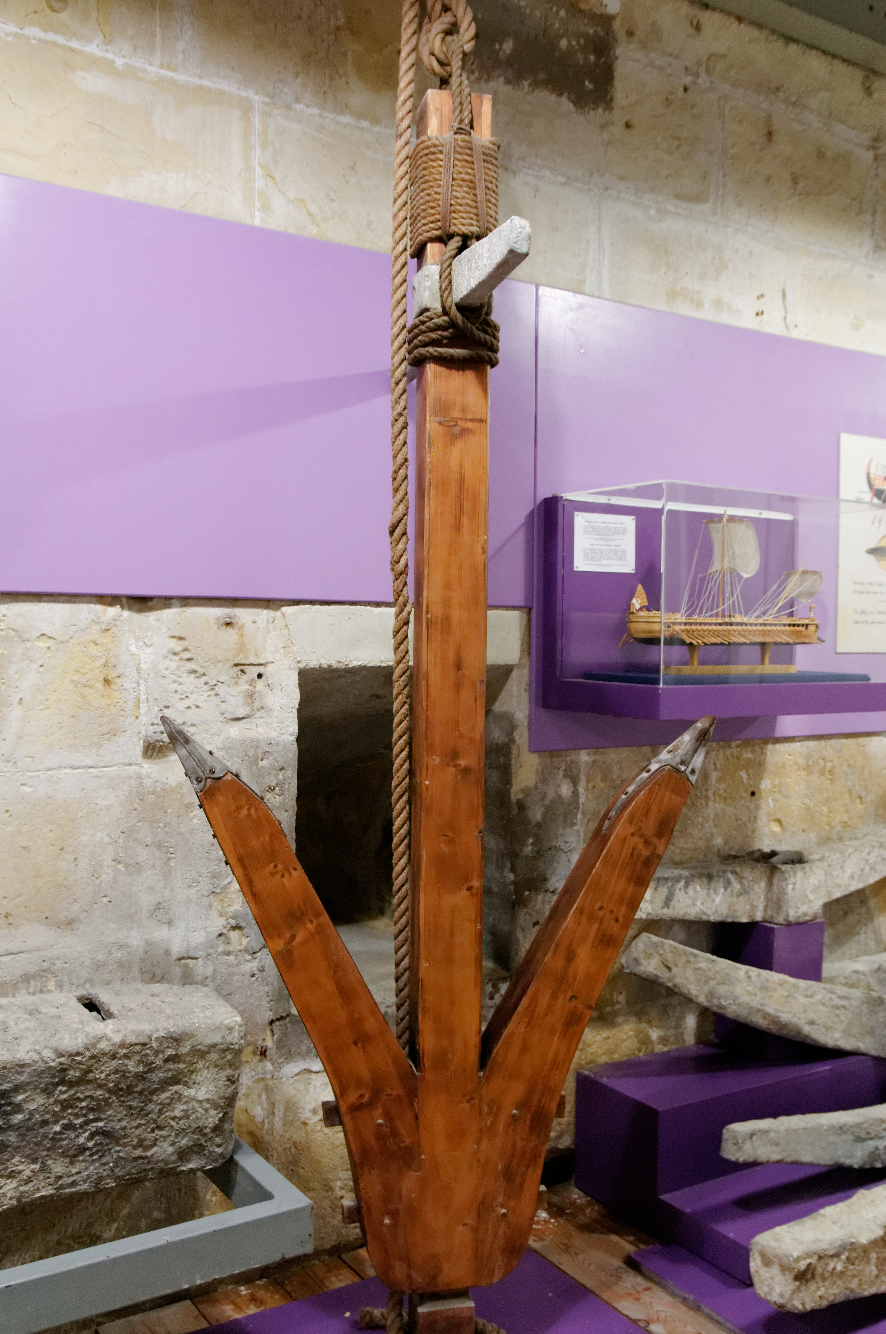 Reconstitution of an Ancient Roman anchor.